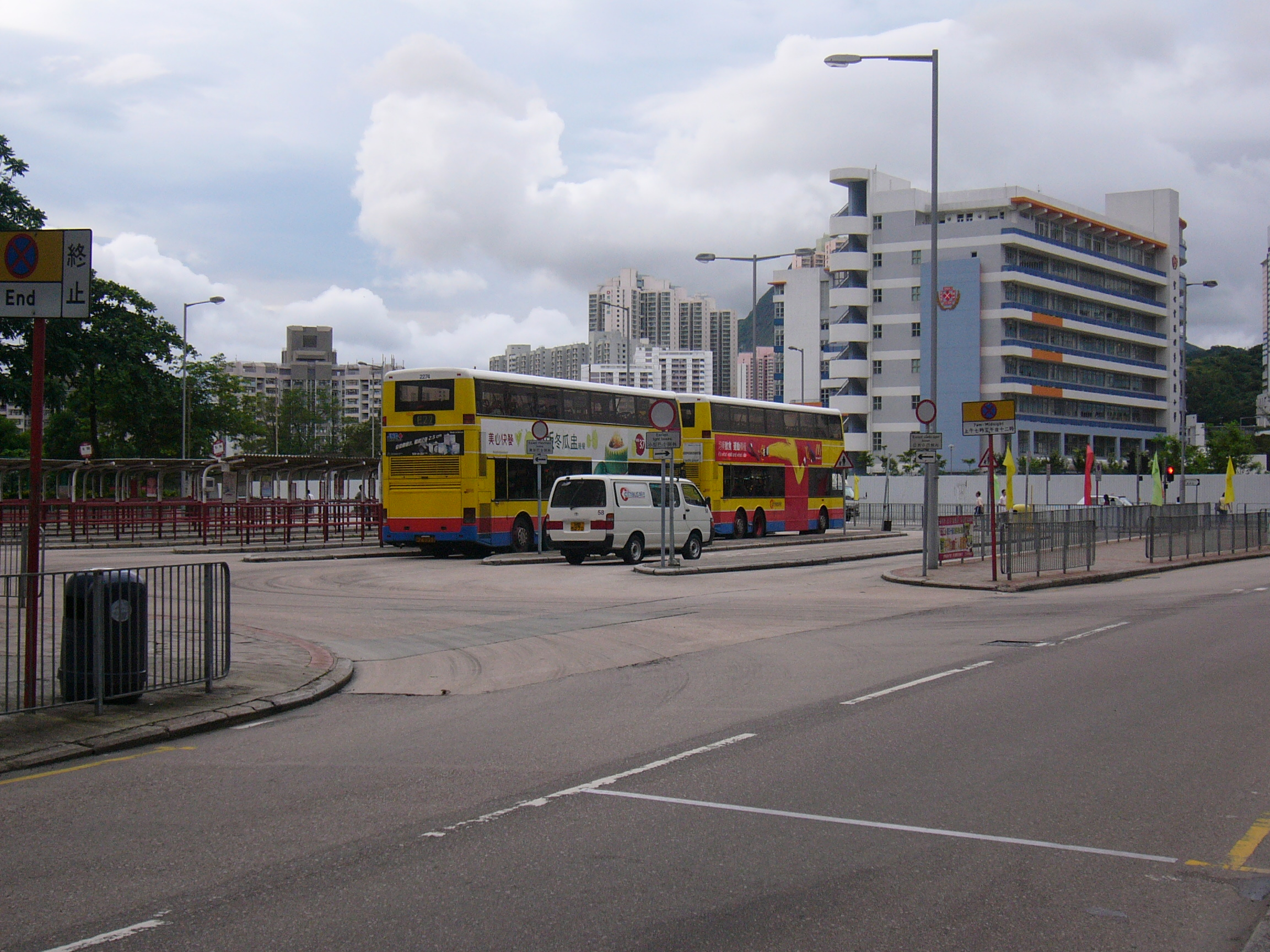 The Tak Tin Bus Terminus (aka. the Lam Tin North Bus Terminus) in Lam Tin, Kowloon, Hong Kong.